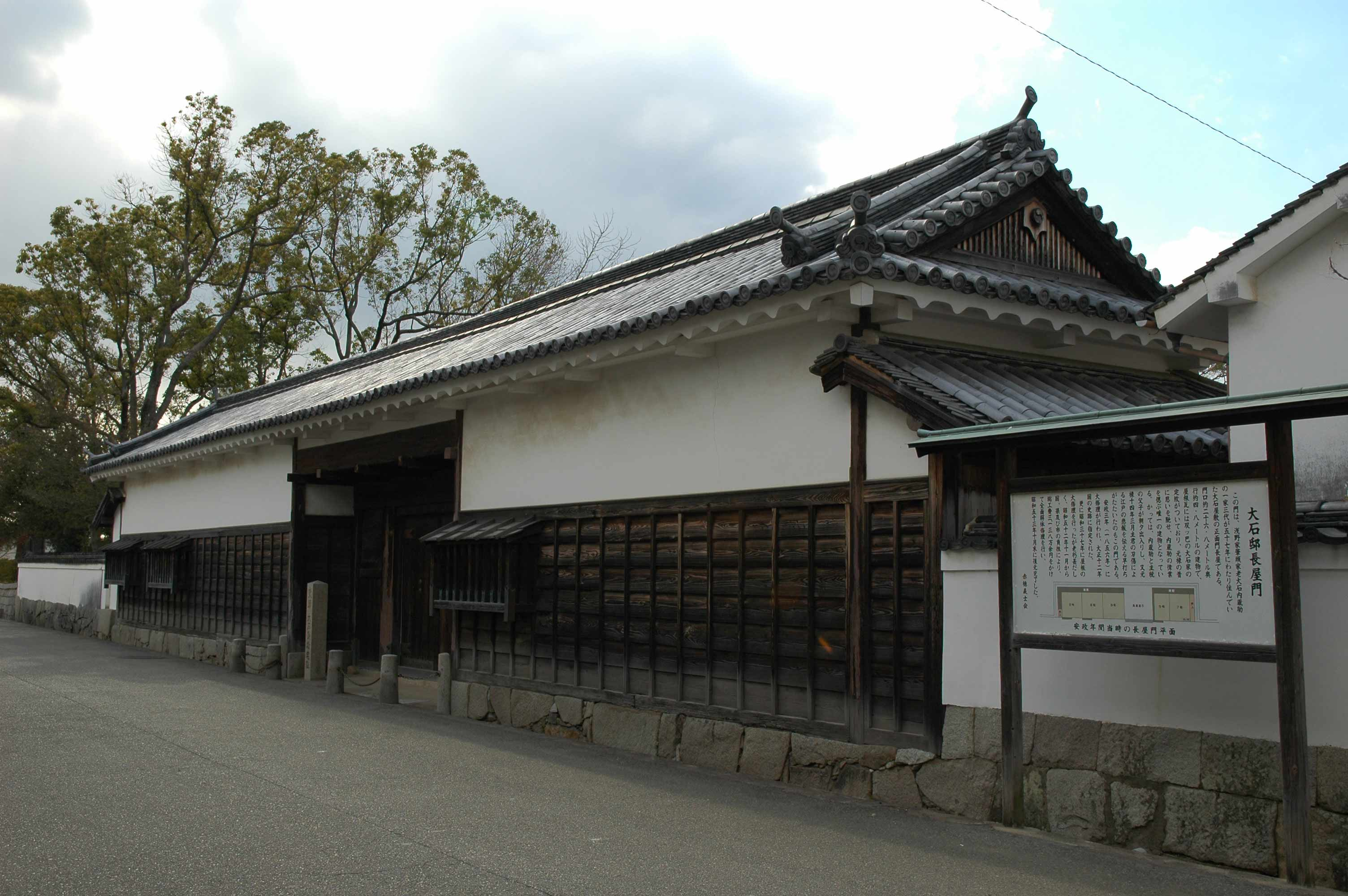 photo of Nagaya gate(Nagaya-mon) belong to residence of Ōishi Kuranosuke